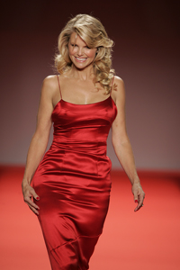 Christie Brinkley in red dress. For the National Heart, Lung, and Blood Institute's "National Wear Red Day" to raise awareness about heart disease